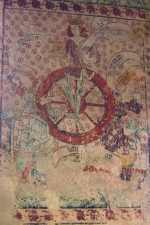 Wheel of fortune in the old church of Enånger, Sweden